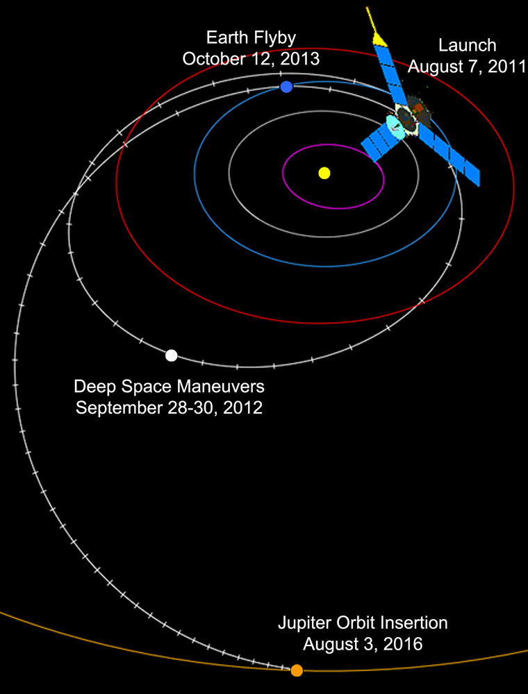 The flight path that will be flown by the Juno spaceprobe.